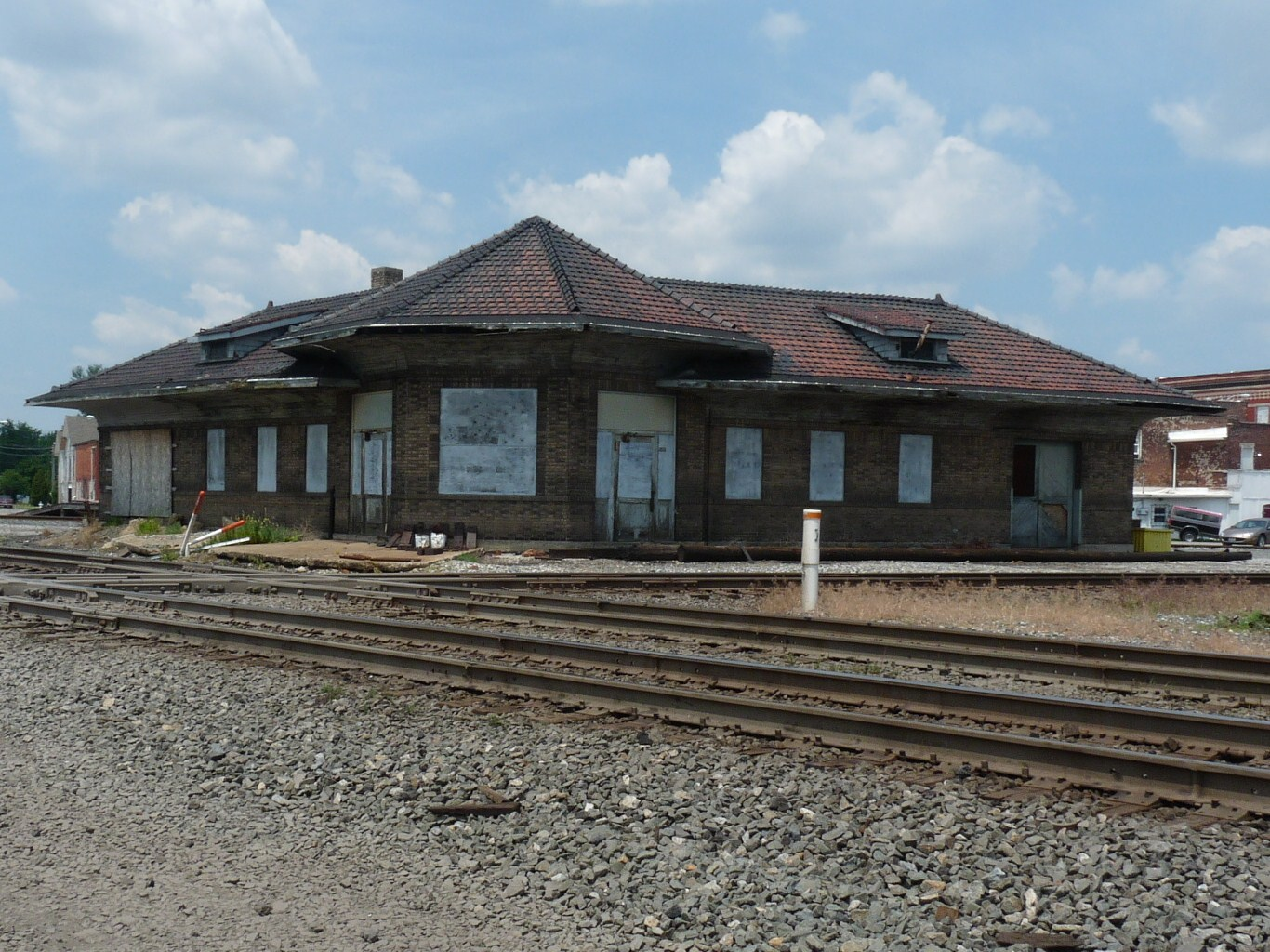 The abandoned railroad station at Deshler, Ohio. Nixon's train stopped here on his "whistle-stop" campaign tour in October 1968